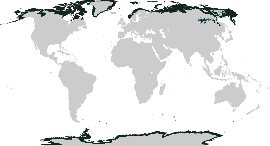 Map of Tundra, with better colors